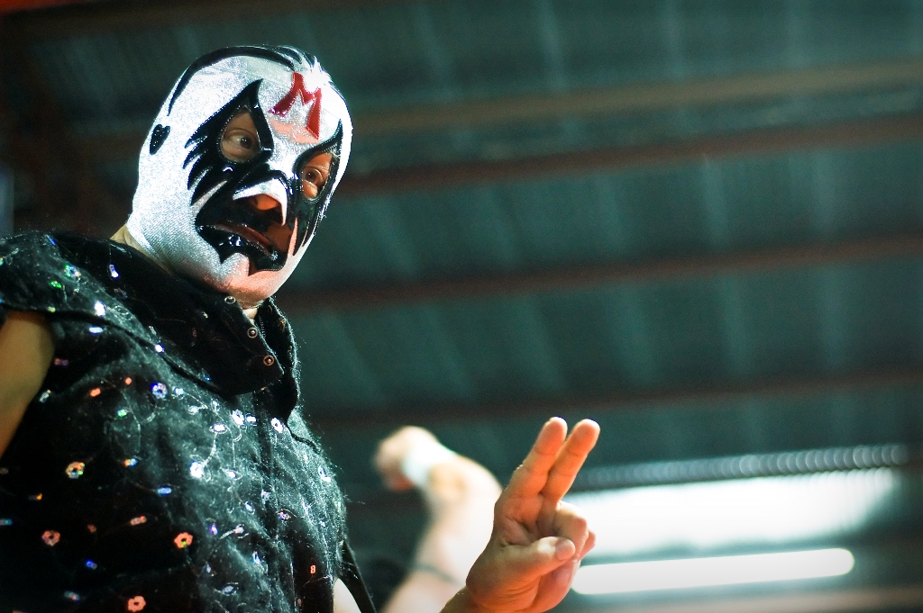 Mexican Luchador Mil Masracas, lucha libre